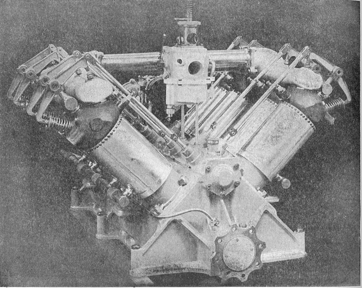 Wolseley 120 hp V8 aero engine (Rankin Kennedy, Modern Engines, Vol III).jpg